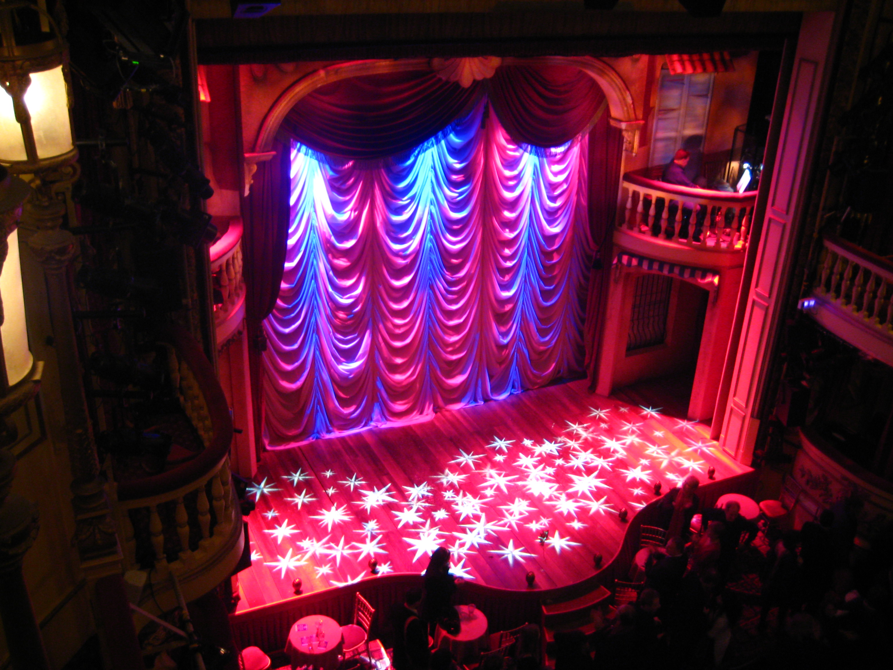 Interior of the Playhouse Theatre, Northumberland Avenue, London. Production of La Cage aux Folles - view of stage after the show.